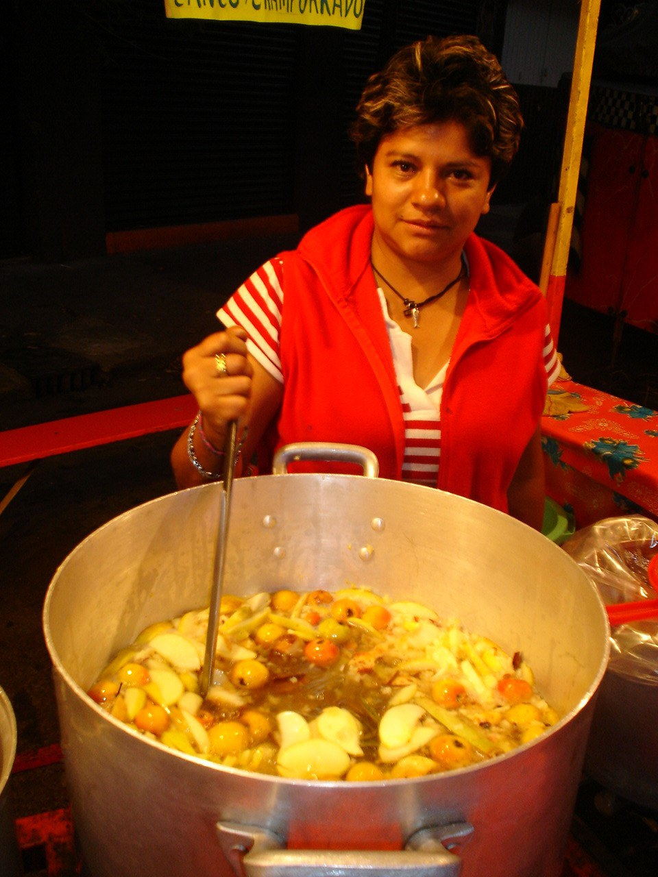 SE MUESTRA EL PREPARADO DEL PONCHE CON TODAS LA FRUTAS PARA CALENTARSE.